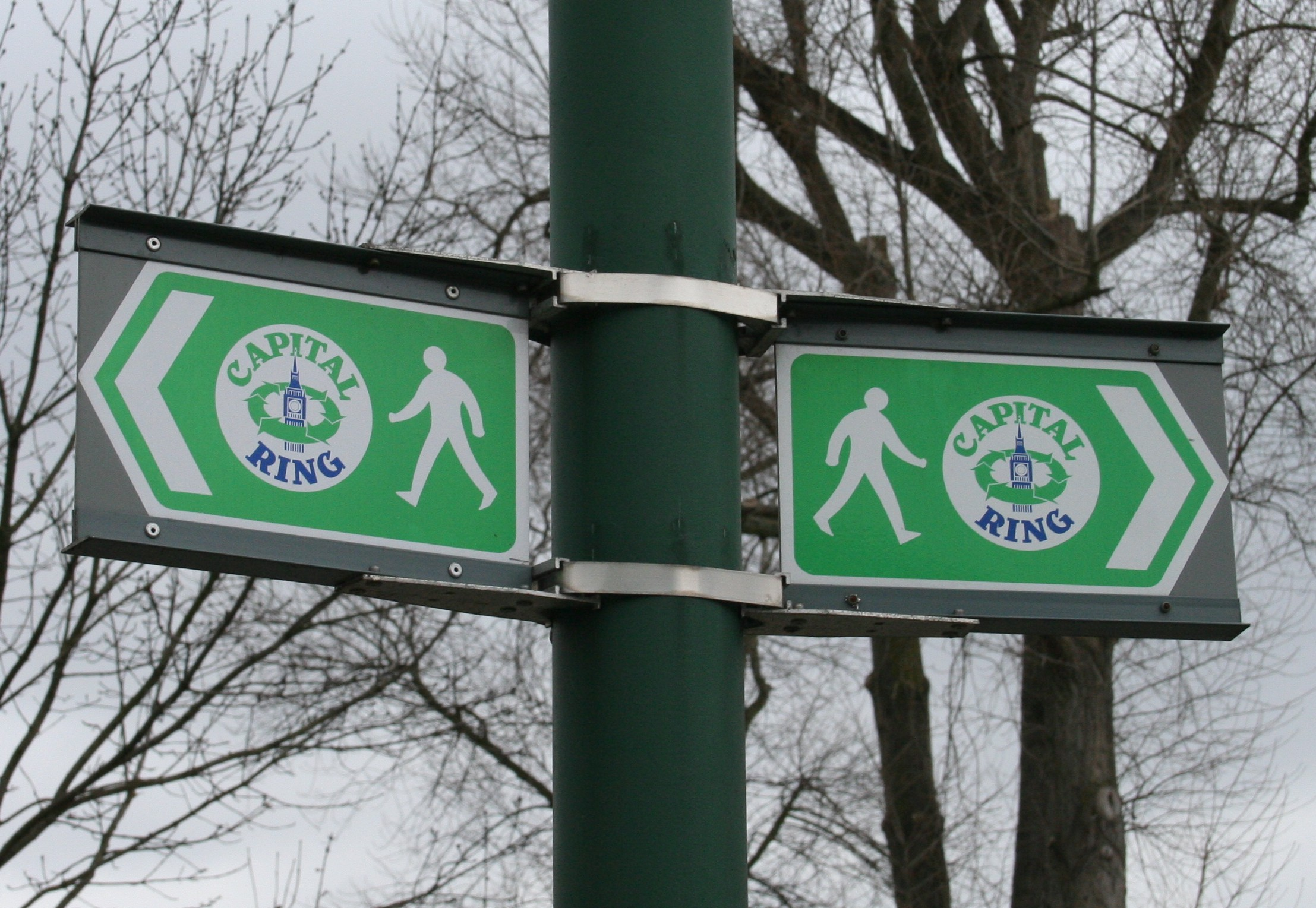 Self made. Taken on a Canon EOS 350D.